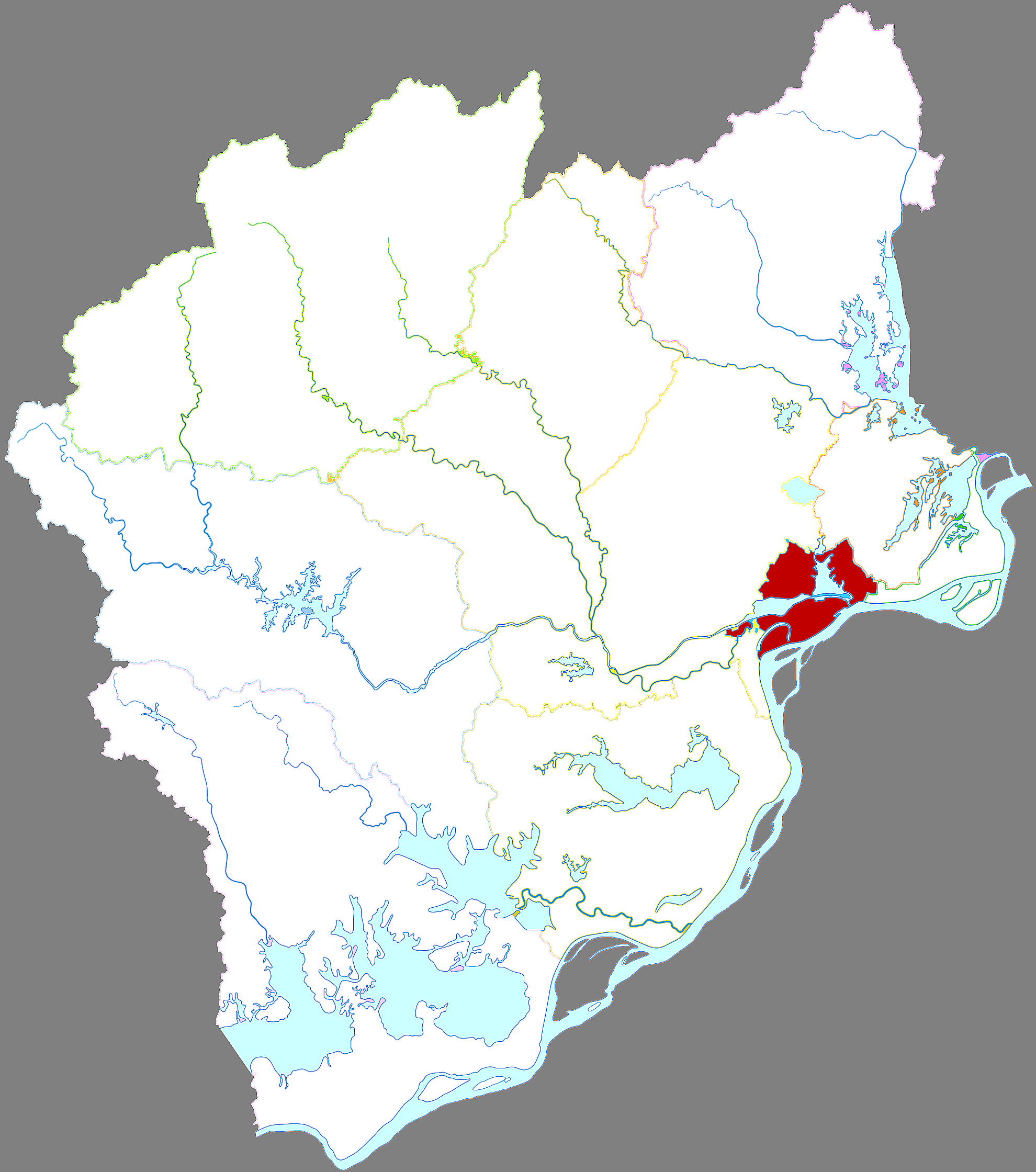 Location of Daguan district in Anqing city, China